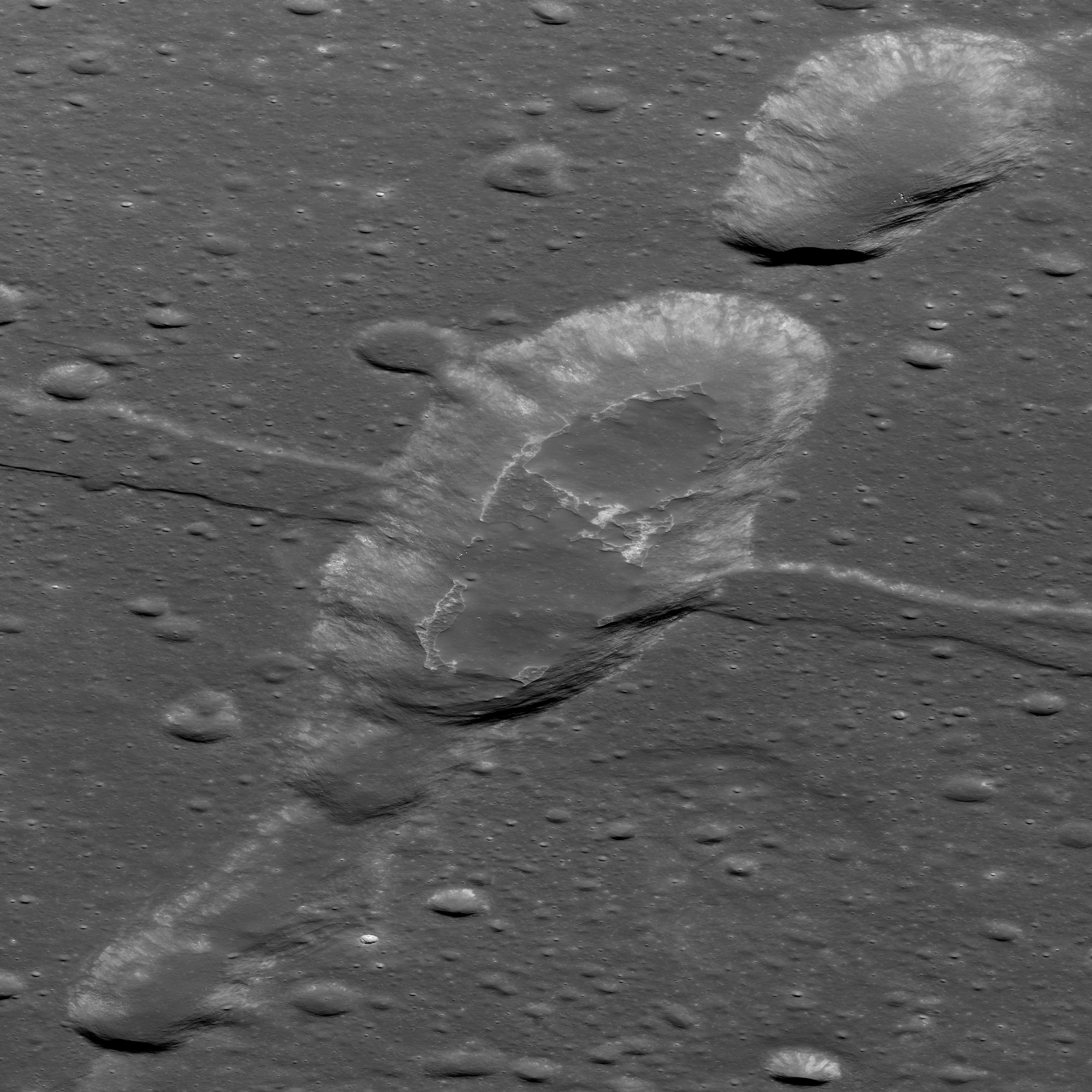 Cropped from original image to show oblique view of the Irregular Mare Patch near Sosigenes crater. Original caption: Spectacular oblique NAC mosaic of the Sosignes graben with a large collapse pit (2800 m wide left-to-right and 300 m deep) floored with an IMP. North is to the right NAC M1108117962LR.